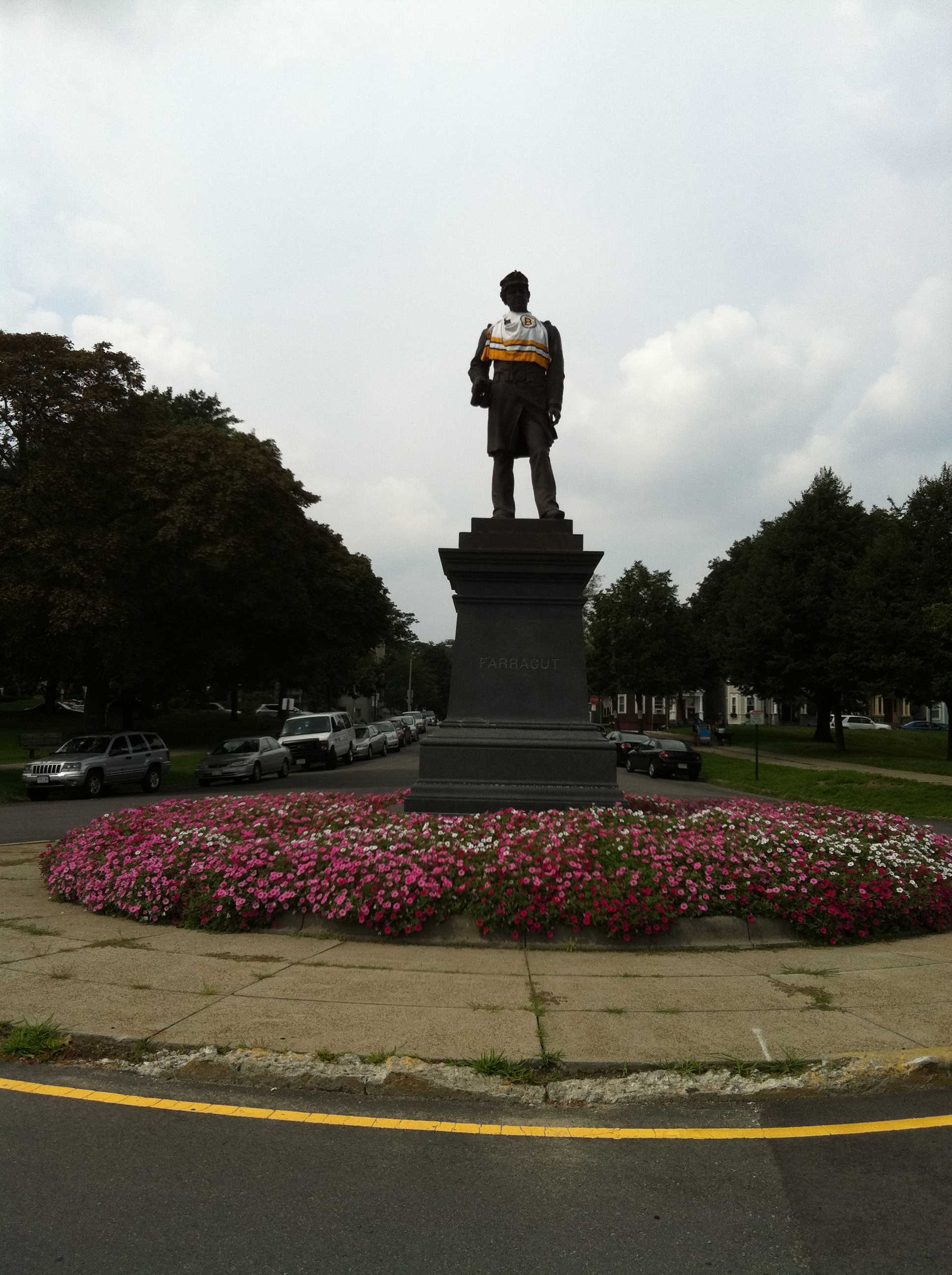 Statue of David G. Farragut dressed in Bruins jersey at Marine Park in City Point, South Boston